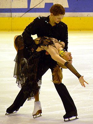 Kaitlyn Weaver and Charles Clavey during their original dance at the 2005 Junior Grand Prix event in Croatia